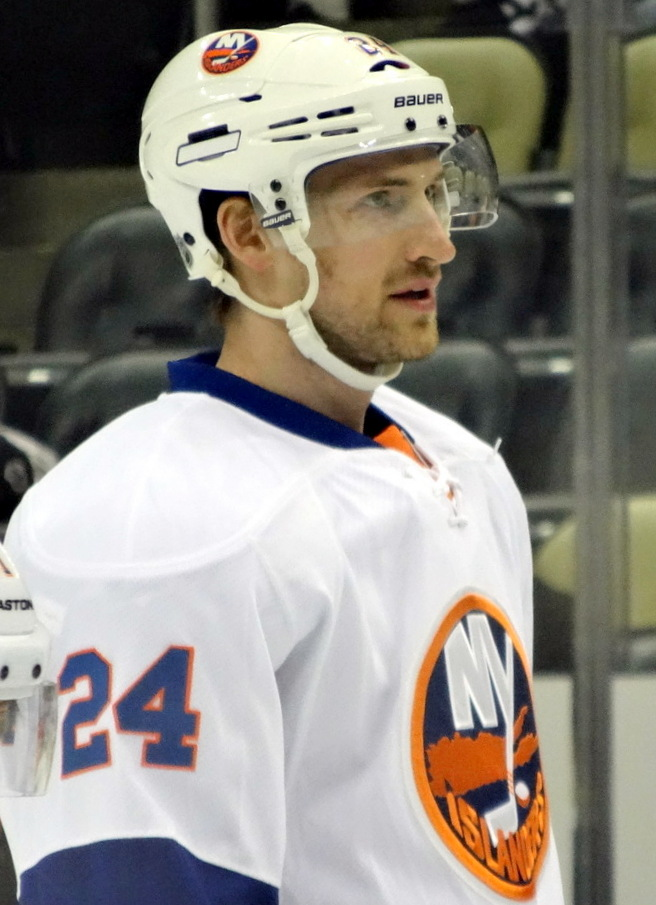 New York Islanders forward Brad Boyes during round one, game five of the 2013 Stanley Cup playoffs against the Pittsburgh Penguins, May 9, 2013 at Consol Energy Center.